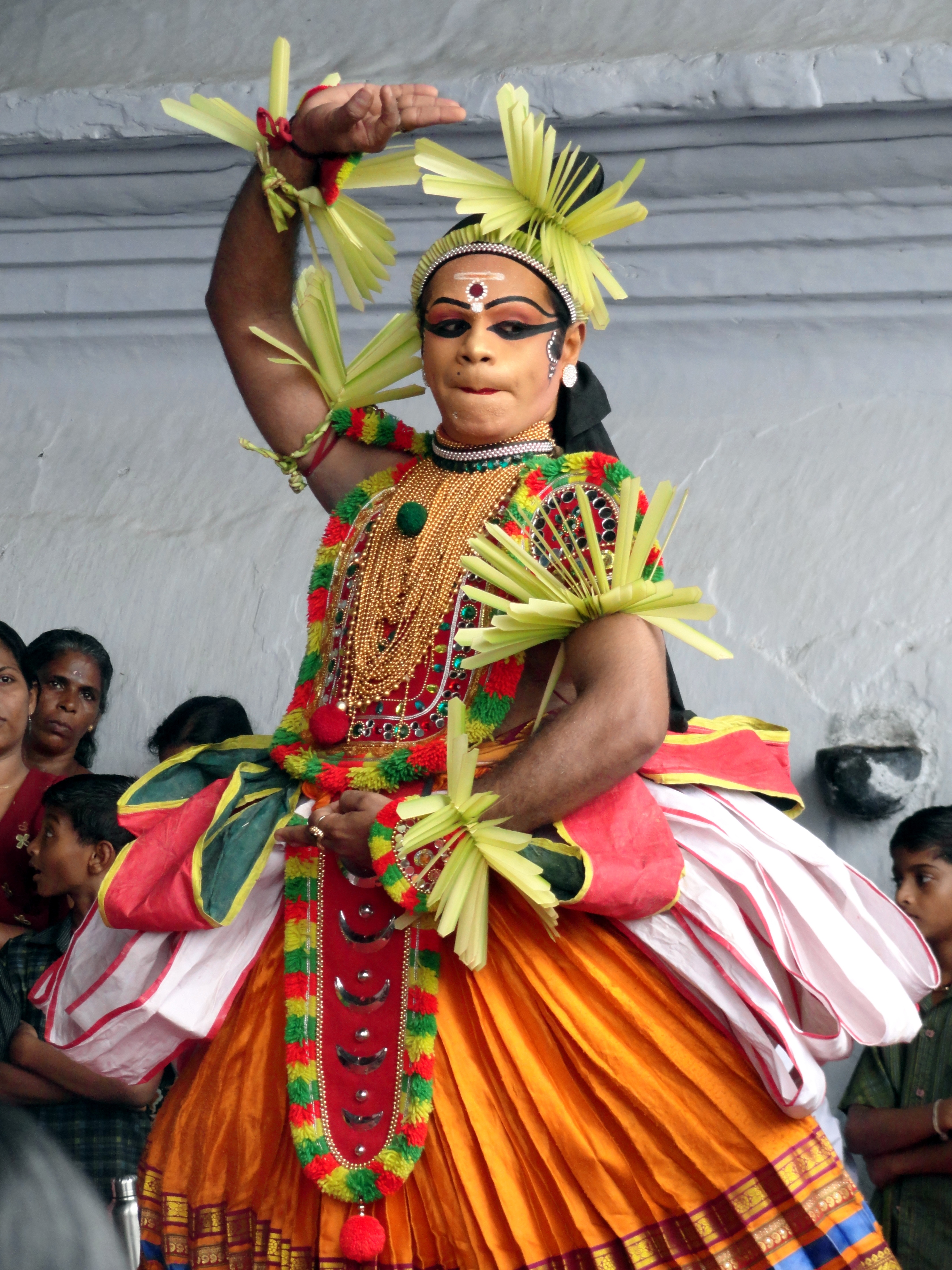 Kerala's traditional art form Seethankan Thullal performed at Thripunithura Sri Poornathrayeesa temple by Sri. Ranjith Thripunithura 26th Nov 2011, as part of the annual temple festival.